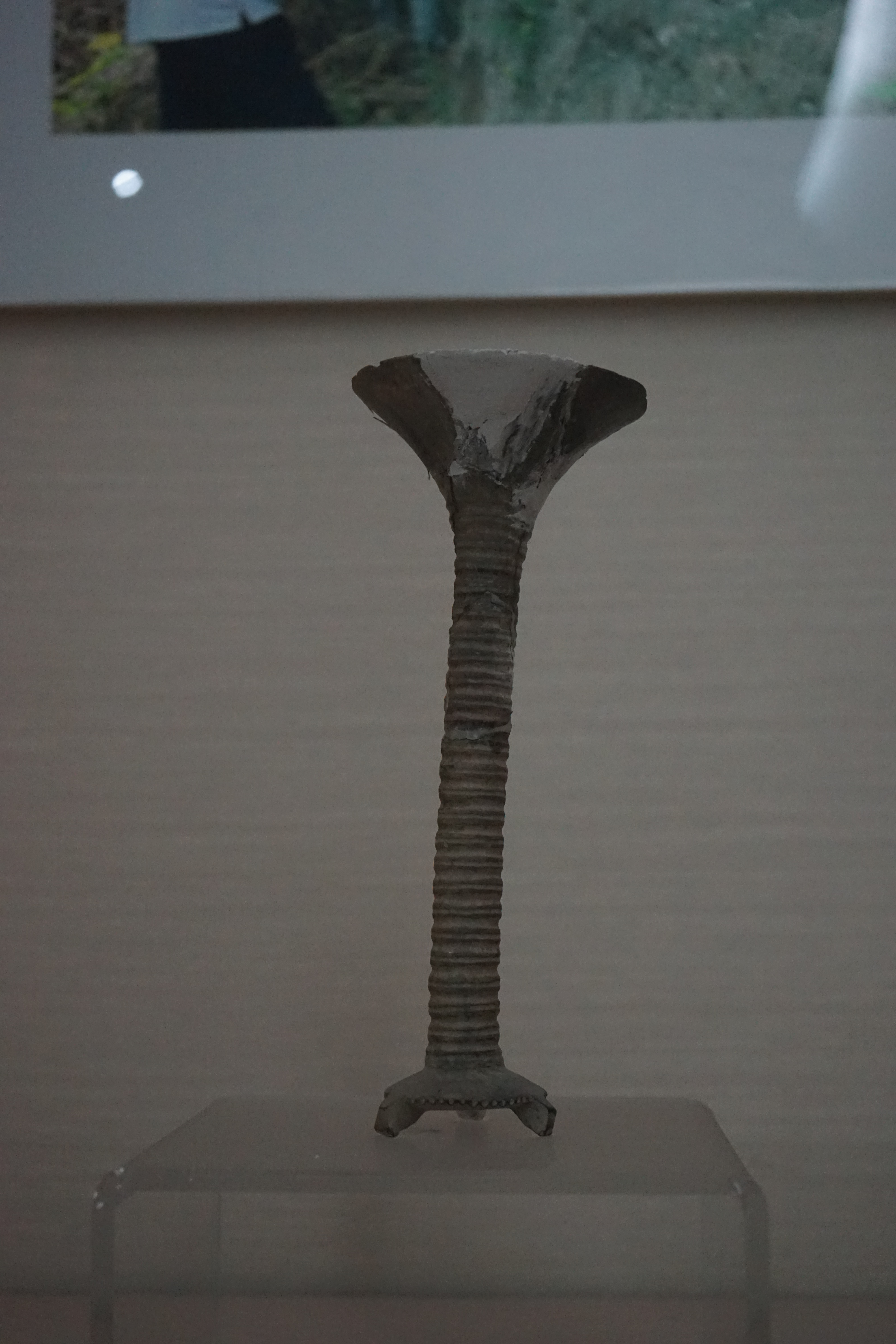 Eggshell High-stemmed Grey Pottery Gu. Drinking wessel. Neolithic Age. unearthed from Dingwu Relics, Taiping Town, Dongping County.